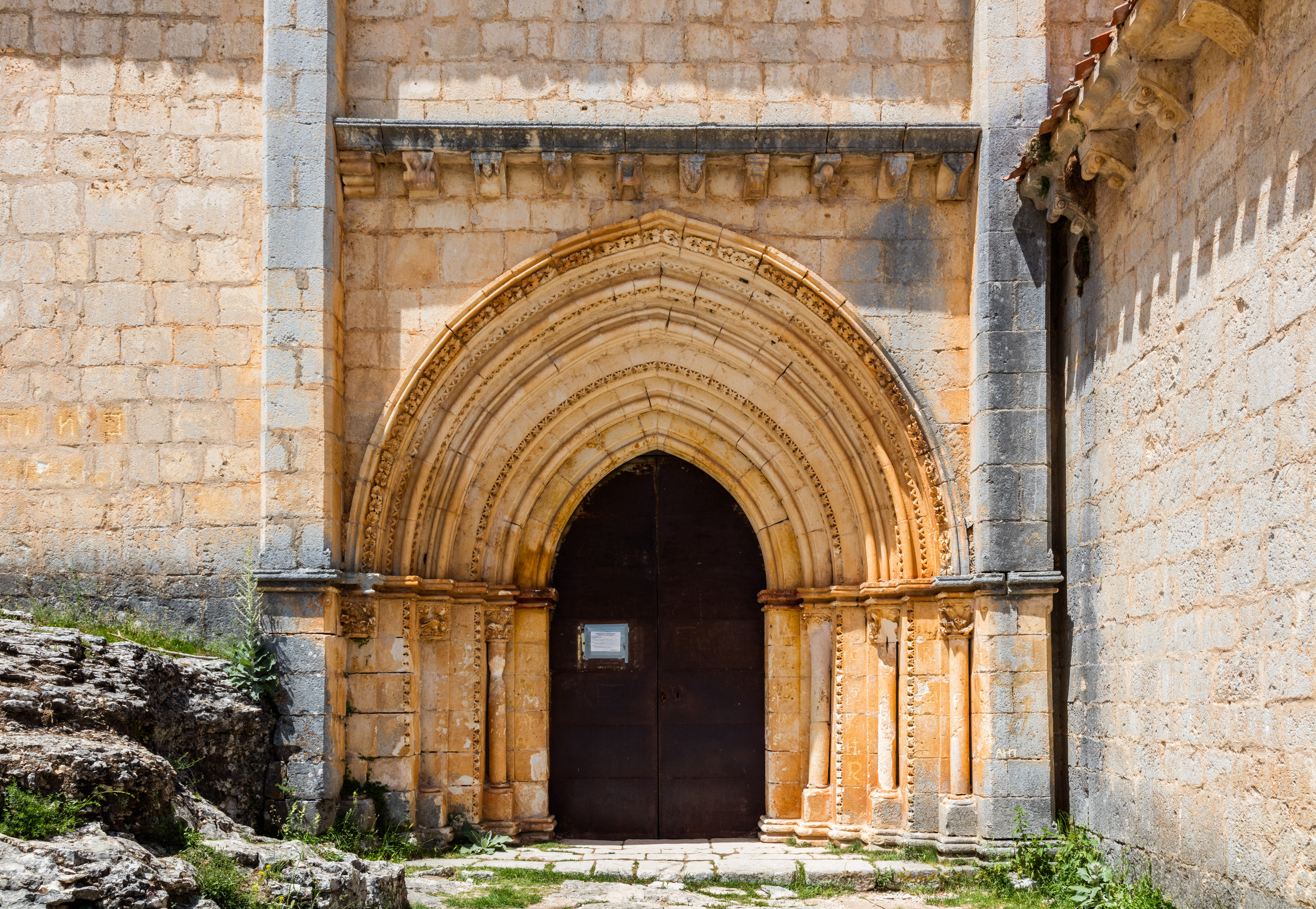 Hermitage of St Bartholomew, Canyon of the Lobos River Natural Park, Soria, Spain